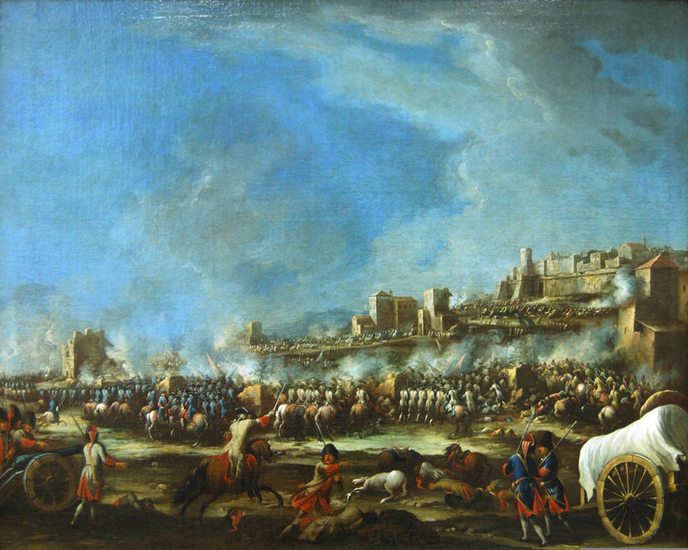 The Battle of Bitonto by Italian battle painter Giovanni Luigi Rocco. Museo del Ejercito, Toledo.